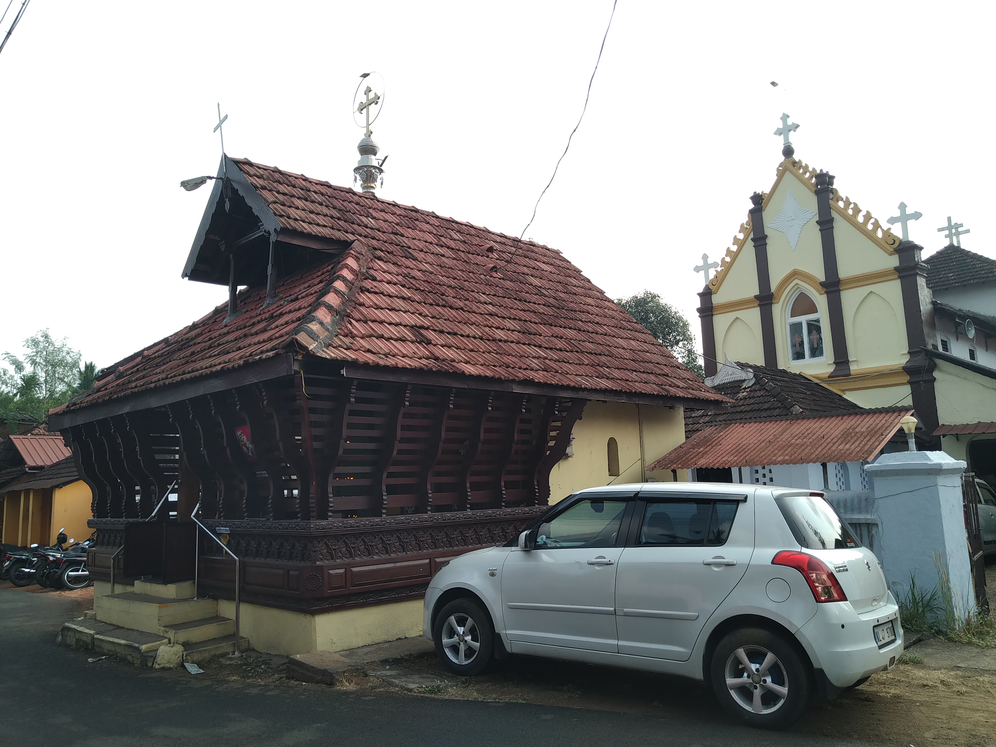 The old temple church and the bigger church of St. Matthias' Church